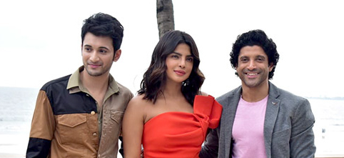 The cast of The Sky Is Pink at a promotional event